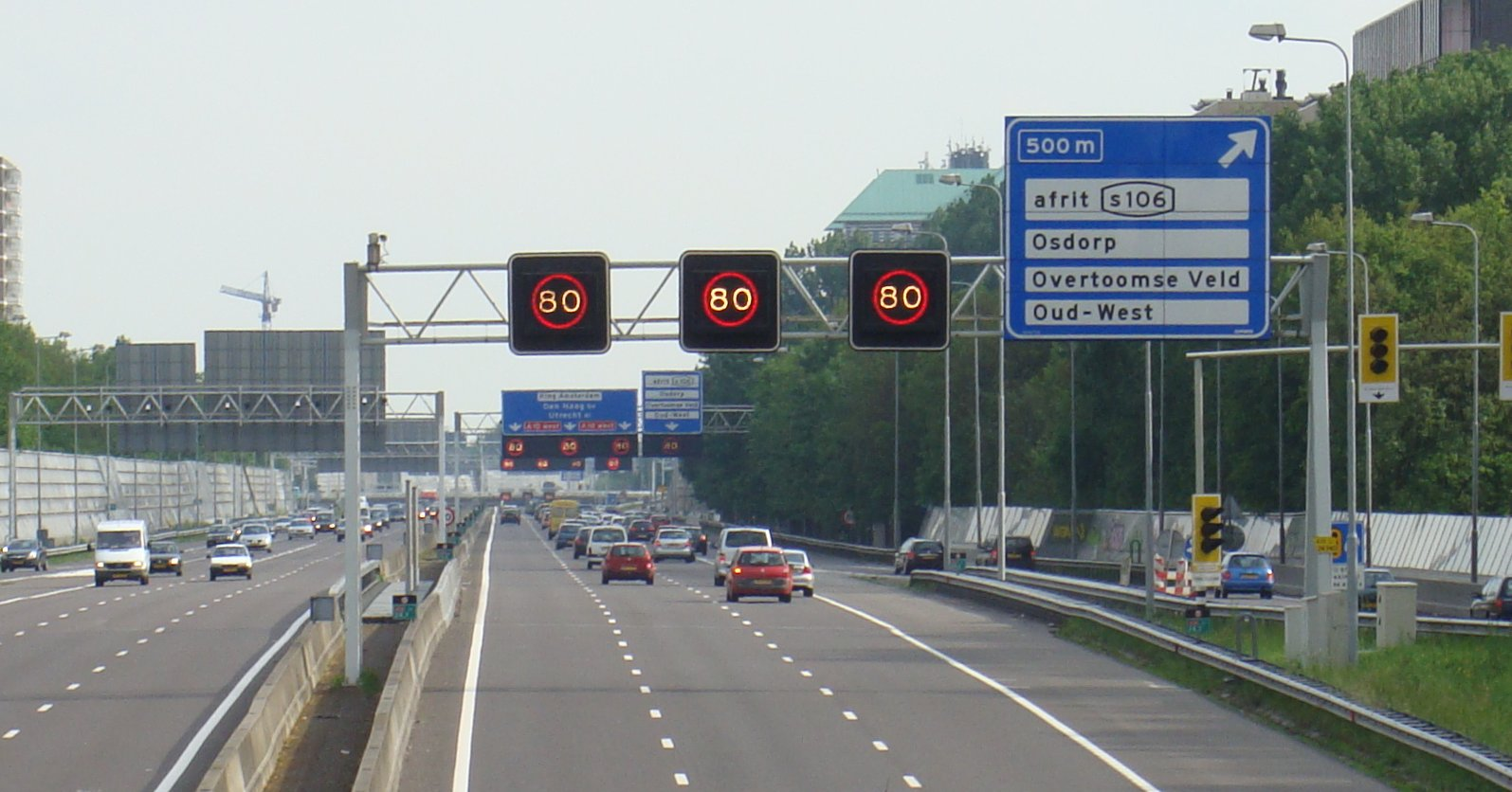 Dynamic speed limit signs at the Amsterdam Orbital Motorway A10.